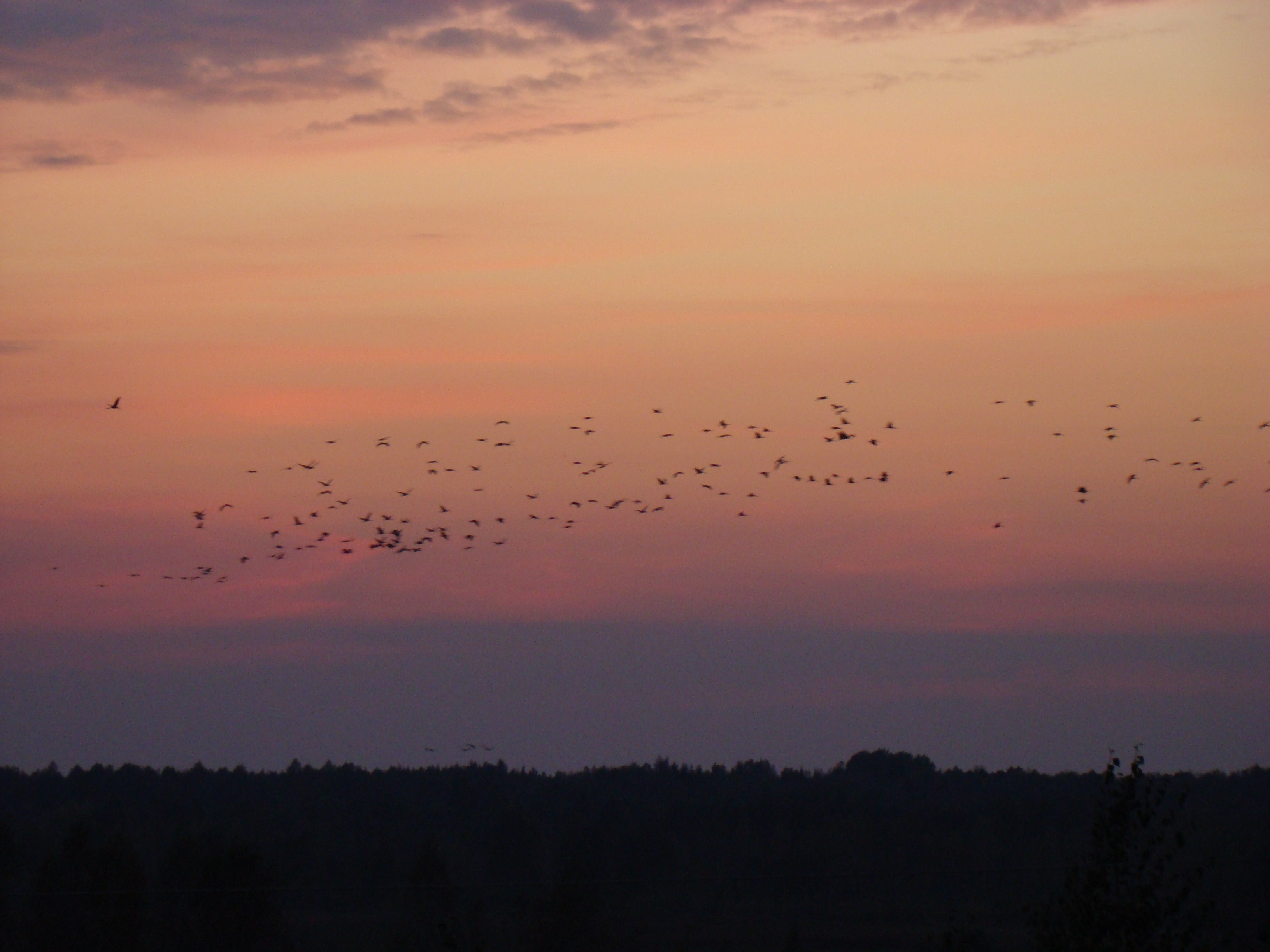 Photo of the Common Cranes (Grus grus) in Novaraistis nature reserve, Lithuania.